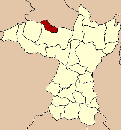 Map of Khon Kaen Province, Thailand, highlighting the sub-district Nong Na Kham (กิ่งอำเภอหนองนาคำ)